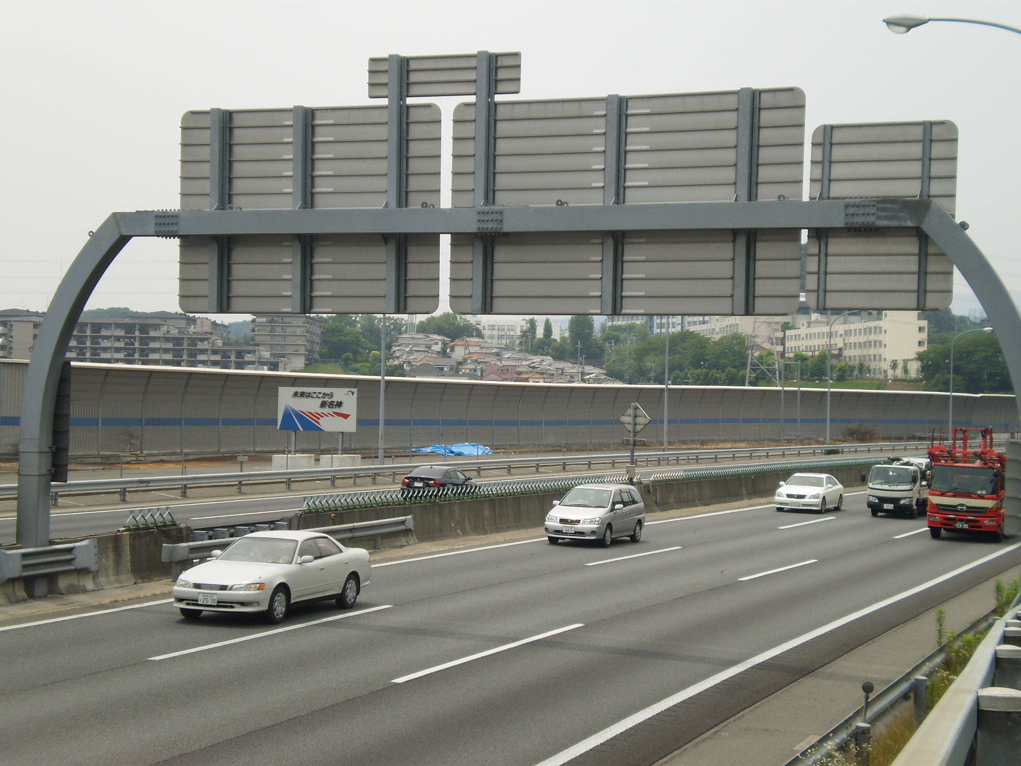 Takatsuki-daini junction construction schedule ground in Shin-Meishin Expressway. I took this image at Amago-syonocho Takatsuki City Osaka Pref., Japan.